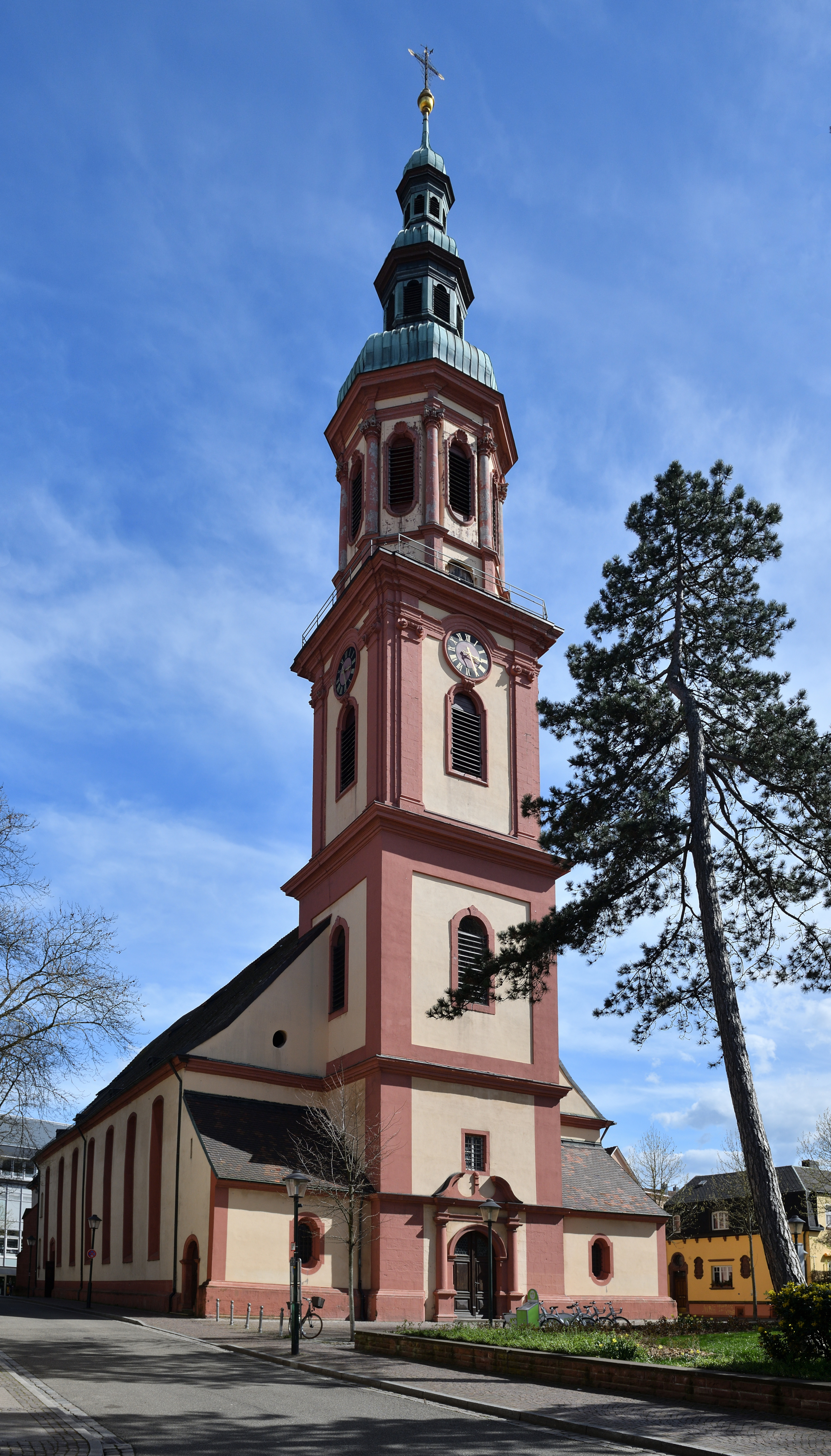 Offenburg: Holy Cross Church